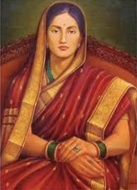 Saibai